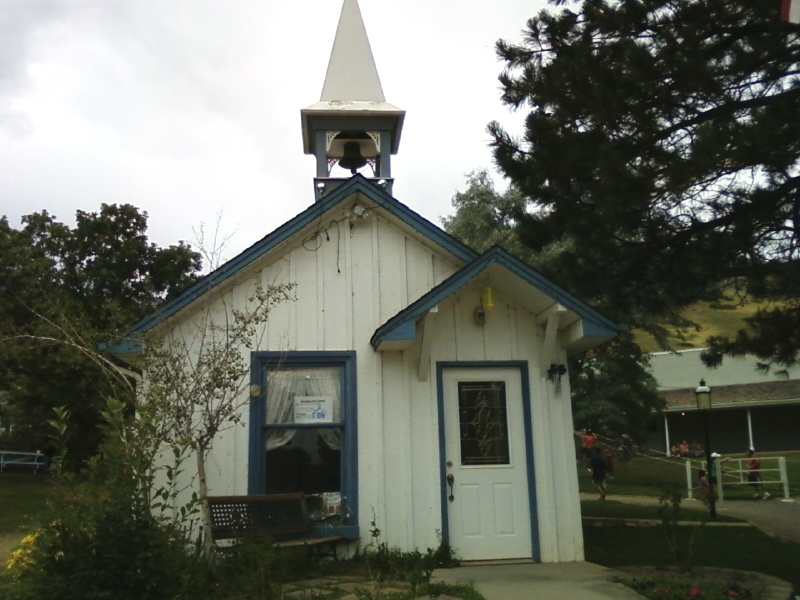 Wedding Bell Chapel at Heritage Square, Golden, Colorado. This building was moved from Lakewood, Colorado where it originally was a one-room schoolhouse.